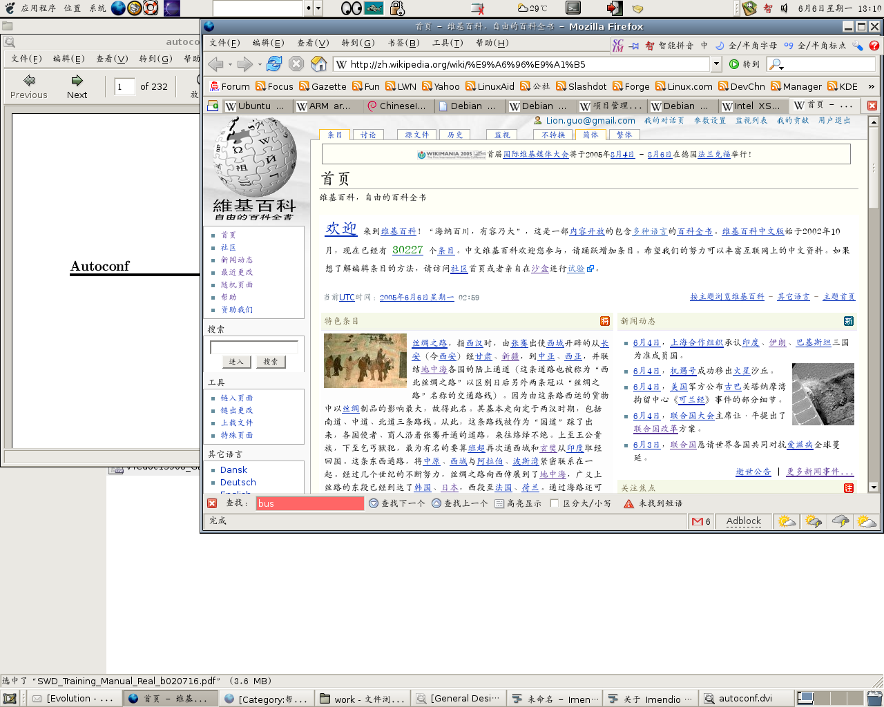 Ubuntu 5.04 screenshot